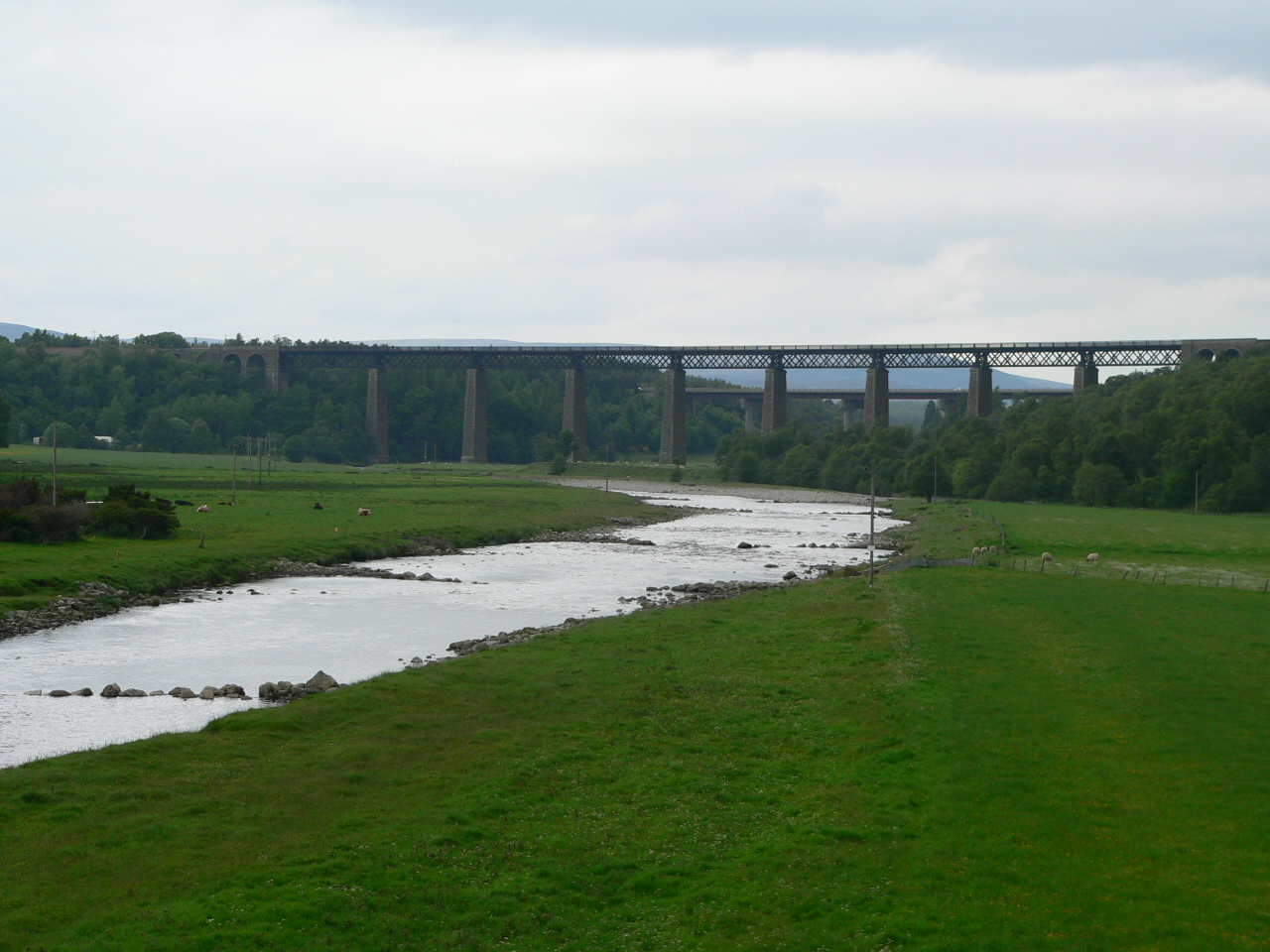 An impressive viaduct carrying the Highland Main Line railway accross the valley of the River Findhorn at Tomatin in Central Scotland. The modern road bridge carrying the A9 is visible behind.